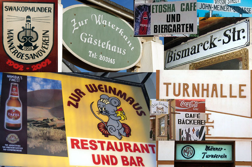 Samples of German signs in Namibia. Collage of photos from Windhoek, Outjo, Swakopmund and Lüderitz.